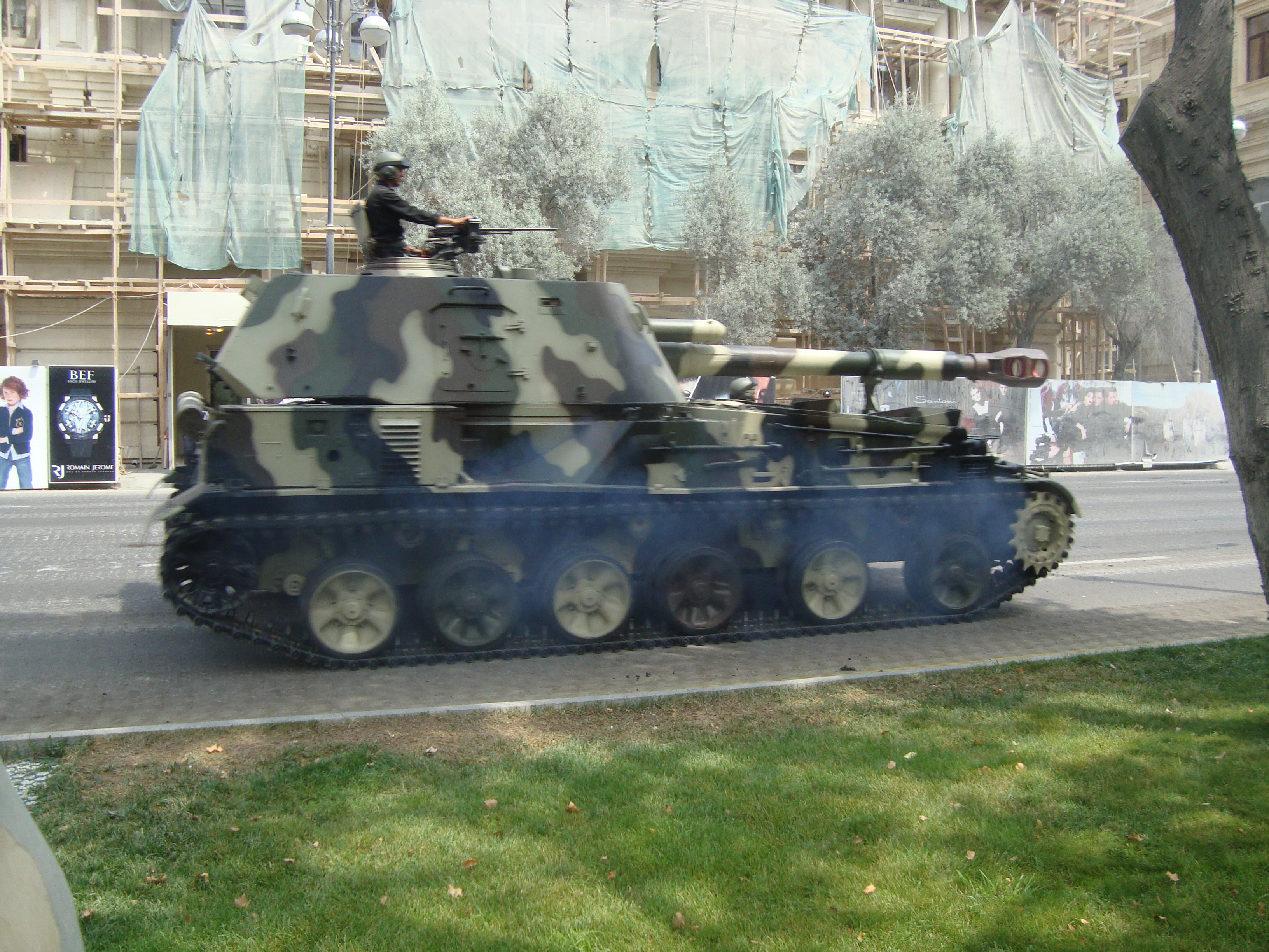 Azeri 2S3